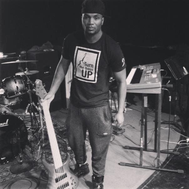 Photo of Nate Jones On Bass